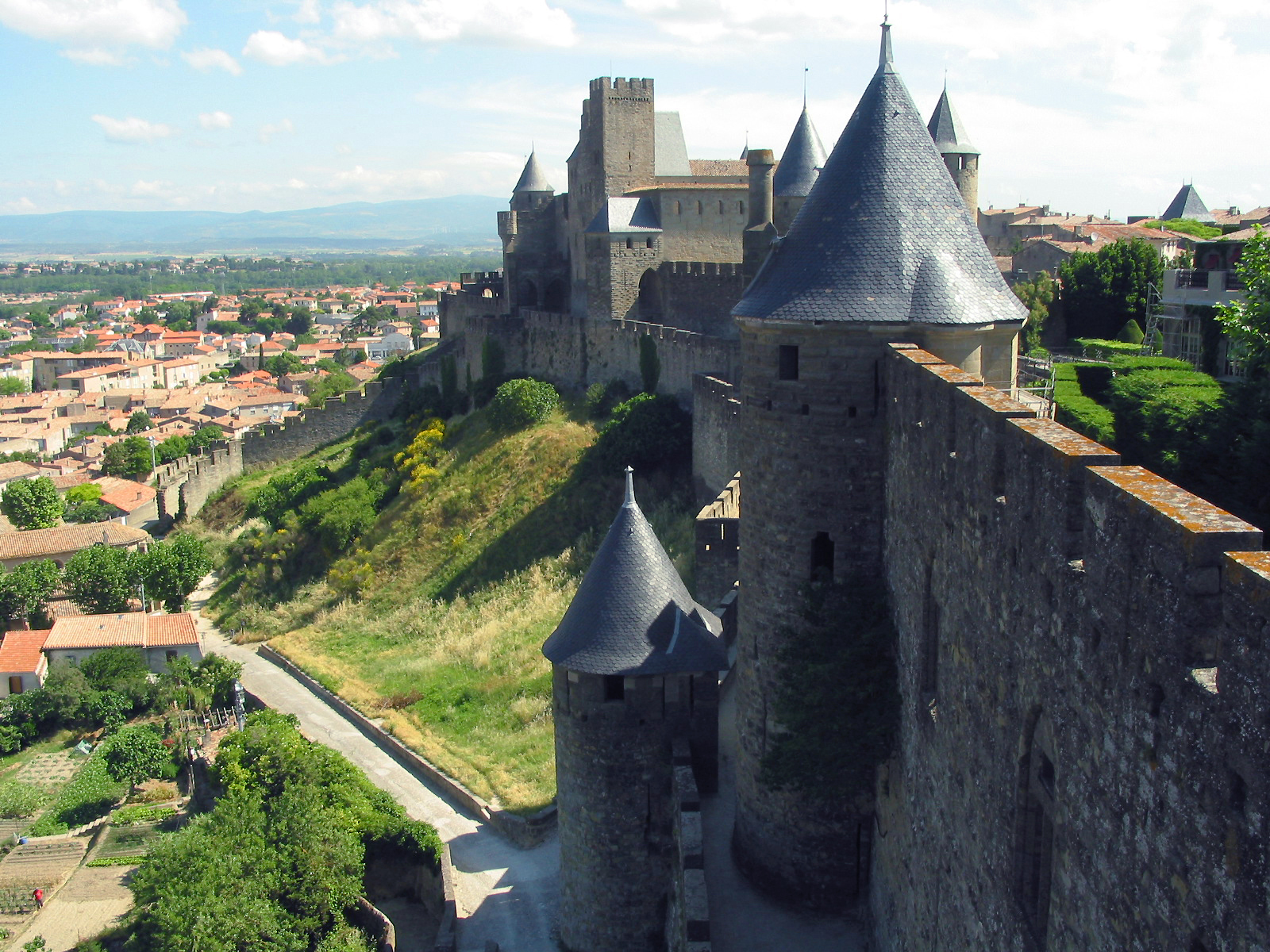 Carcassonne (Aude - France), the lower town, the castle of the count and the western walls of the medieval city seen from the tower of the Inquisition.